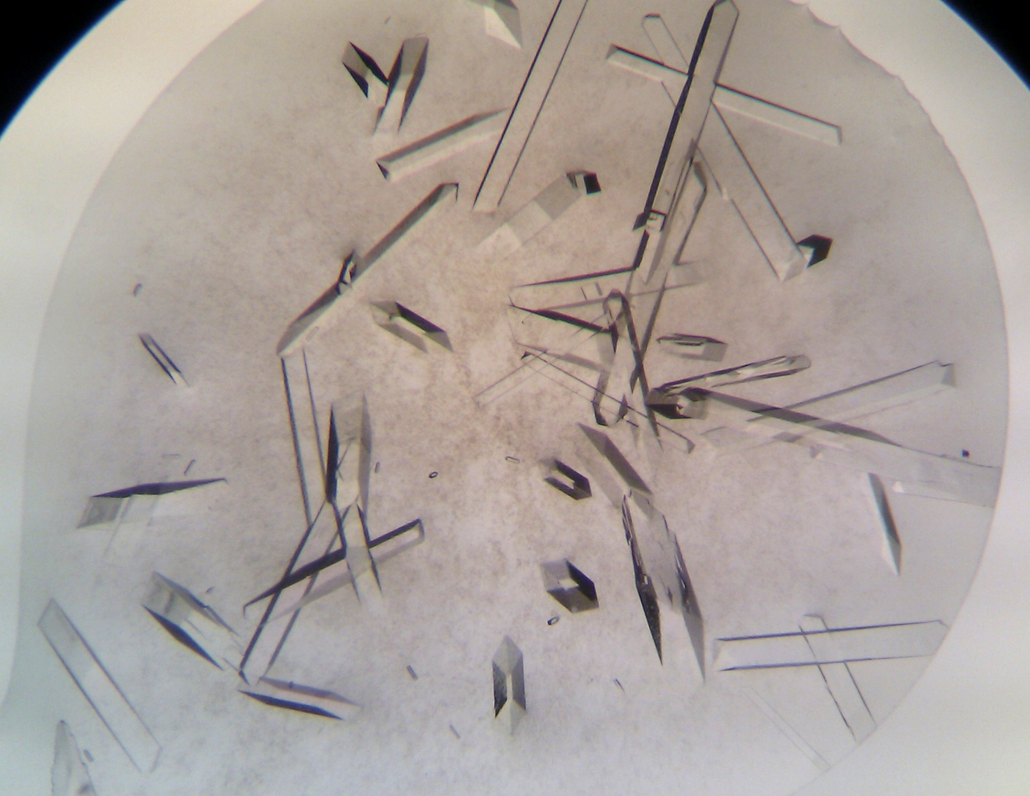 Crystals of enzyme trypsin under Nikon SMZ800 microscope. Crystals grown in the presence of benzamidine at room temperature by using seeding technique.